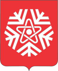 Snezhinsk (Chelyabinsk oblast), coat of arms